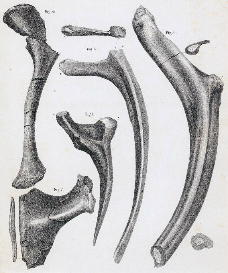 Figs. 1-3. Ribs of the Megalosaurus; one fourth natural size. Fig. 4. Pubis of do. Fig. 5. Ischium of do. From the Oolitic Slate of Stonesfield, Oxfordshire.